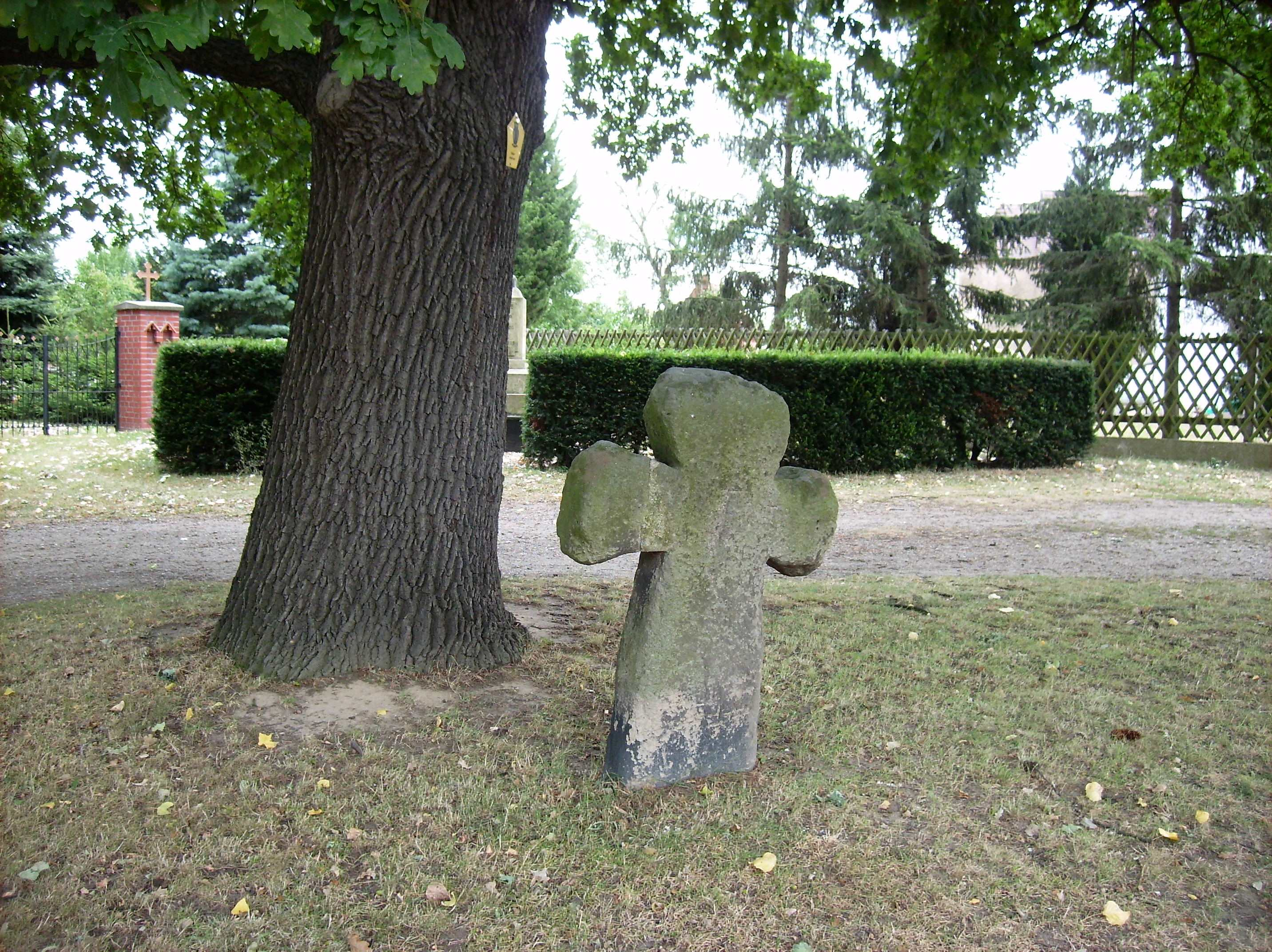 Cross of expiation near the church of Martinskirchen (Mühlberg/Elbe, Elbe-Elster district, Brandenburg)